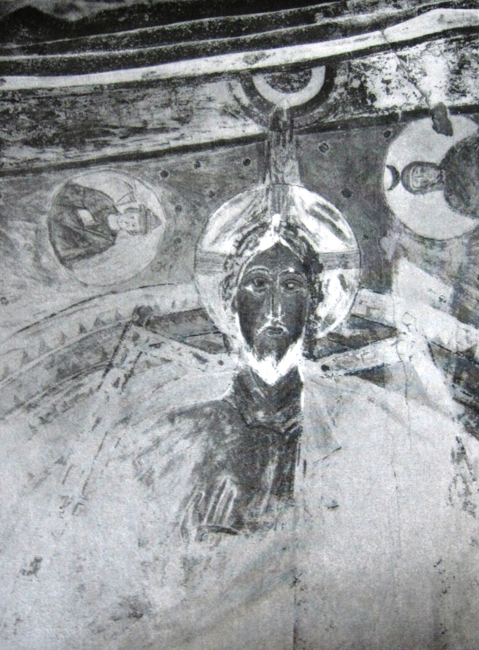 Jesus Christ flanked by the personifications of the Sun and the Moon. An altar conch fresco from the Dodos Rka domed church (David Gareja, Georgia)